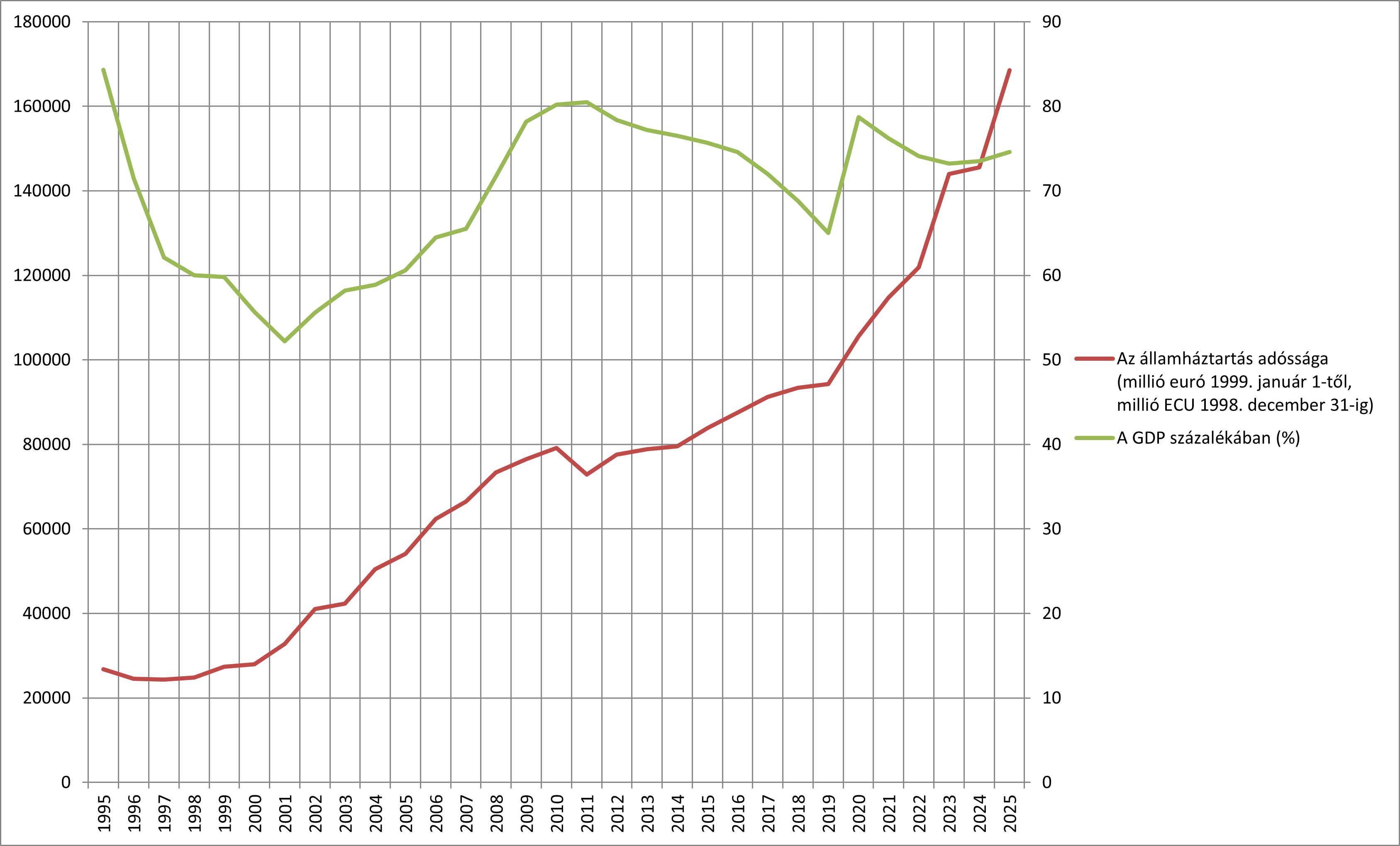 Hungarian government debt to GDP ratio 1995- (million EUR from jan.01.1999., million ECU until dec.31.1998.)